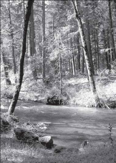 The Little Applegate River in southern Oregon.